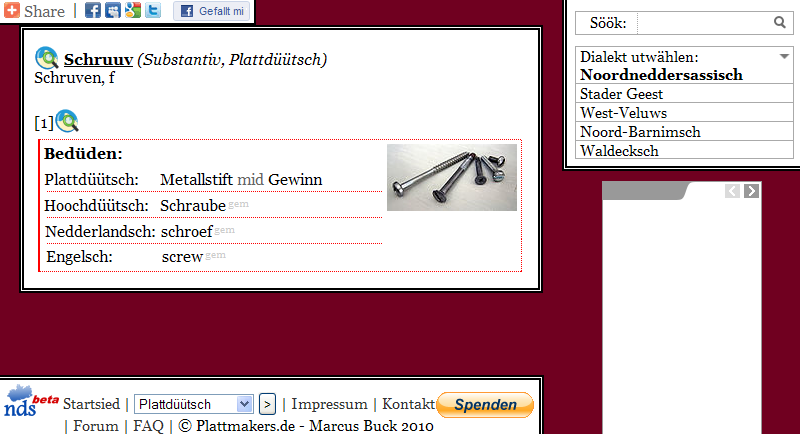 Screenshot of the Low Saxon online-dictionary website Plattmakers.de.